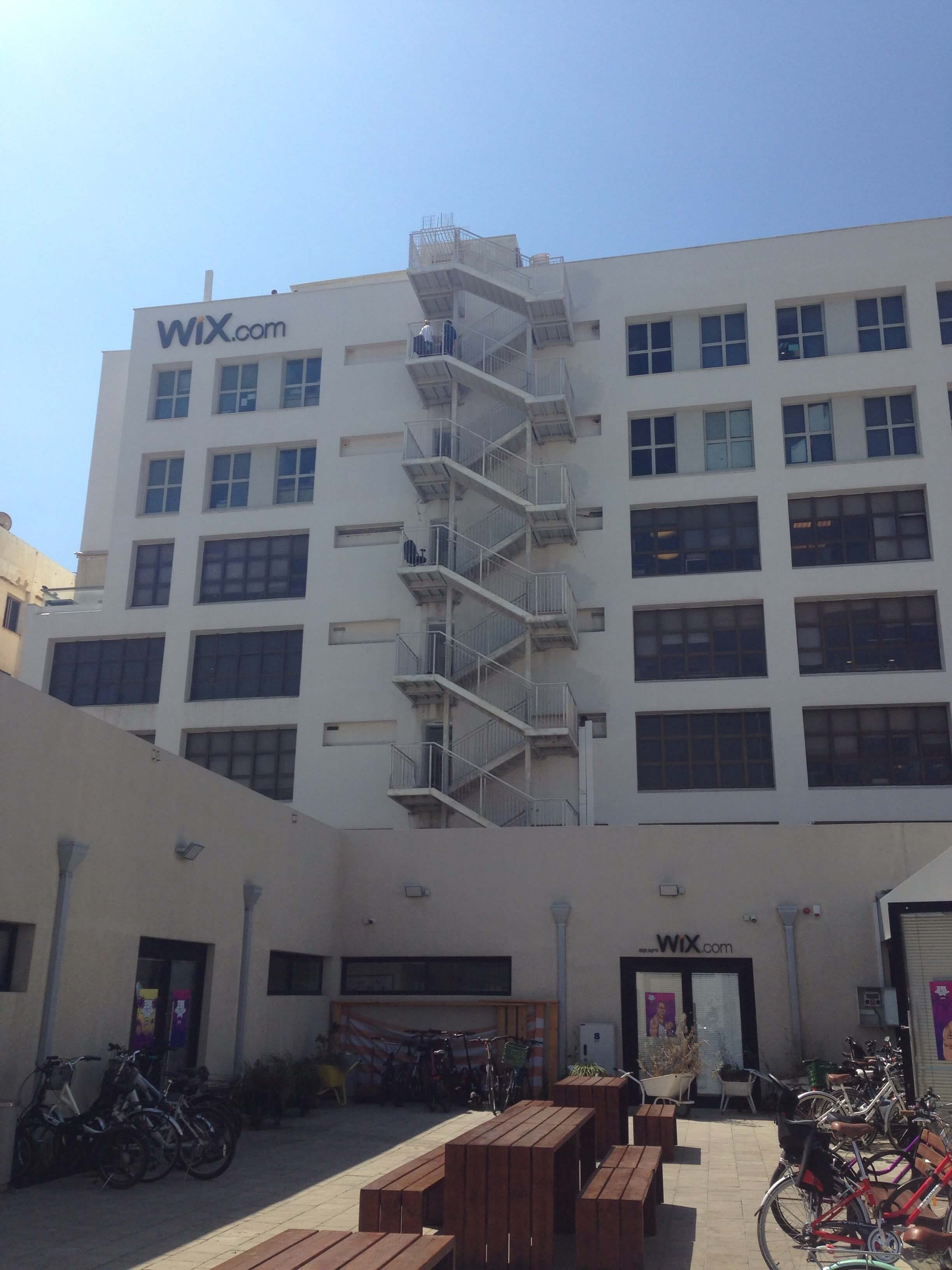 Two of the headquarters properties in Tel Aviv Port, Israel